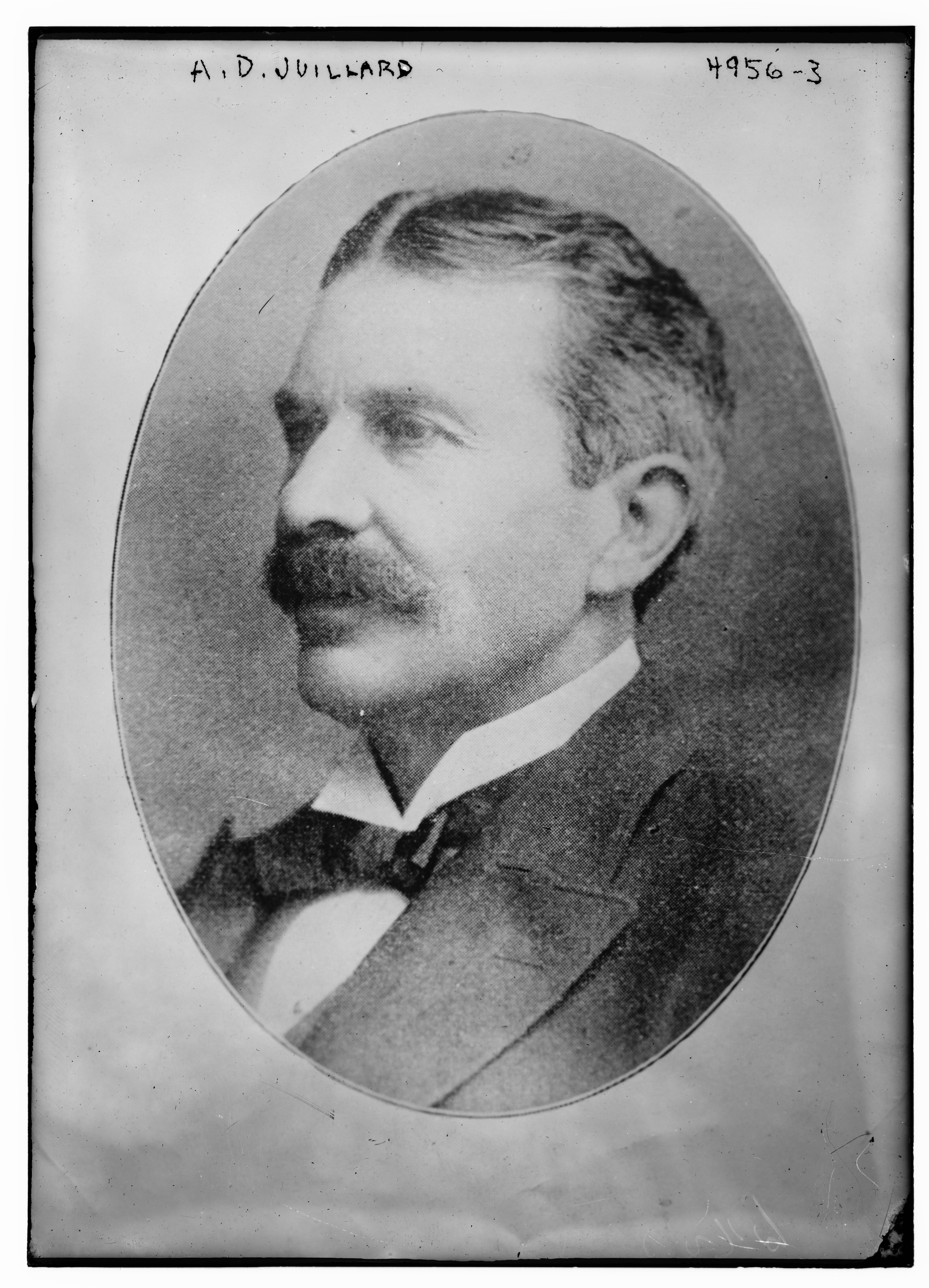 Augustus D. Juilliard circa 1919